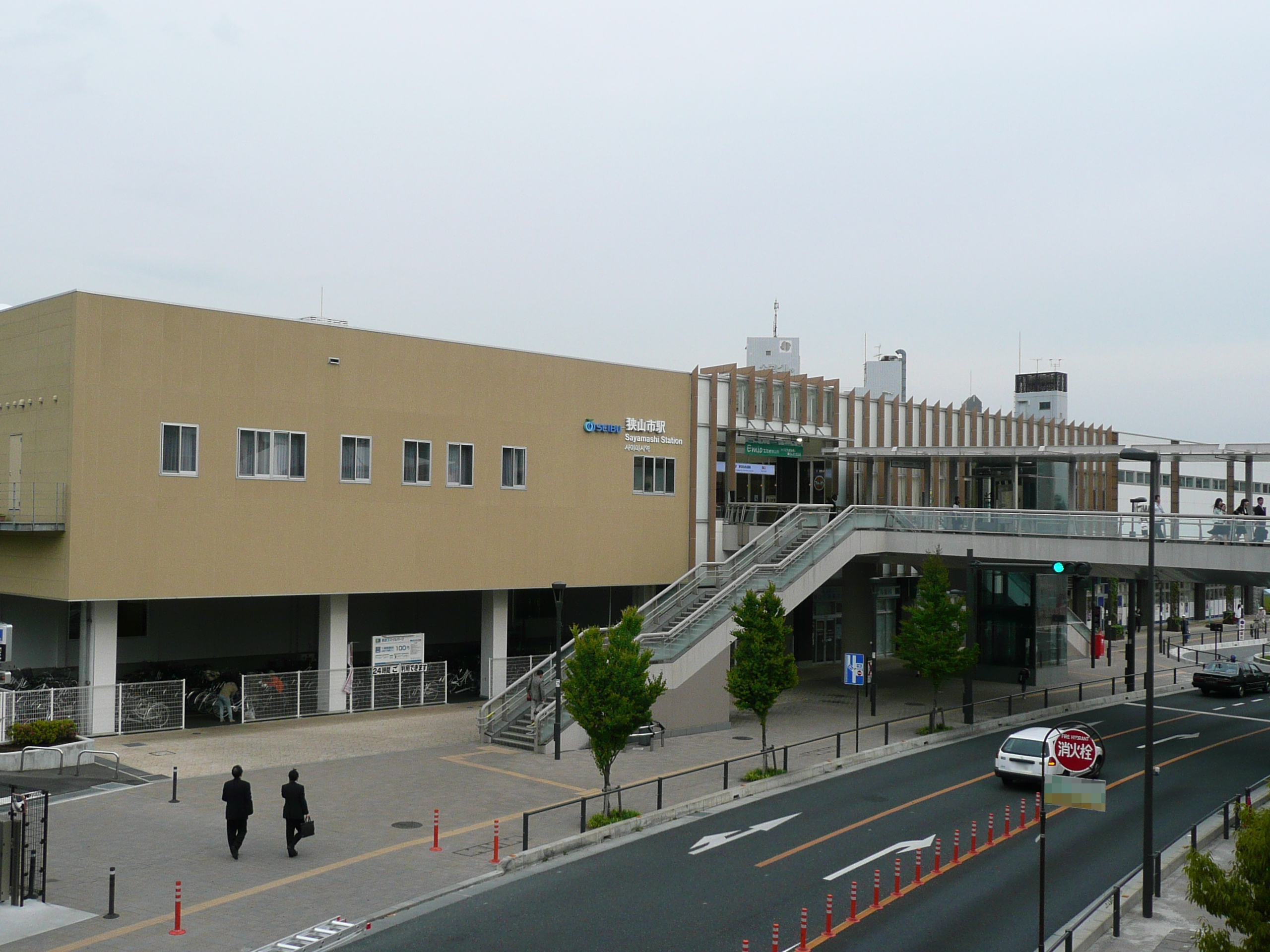 West Entrance of Sayamashi Station